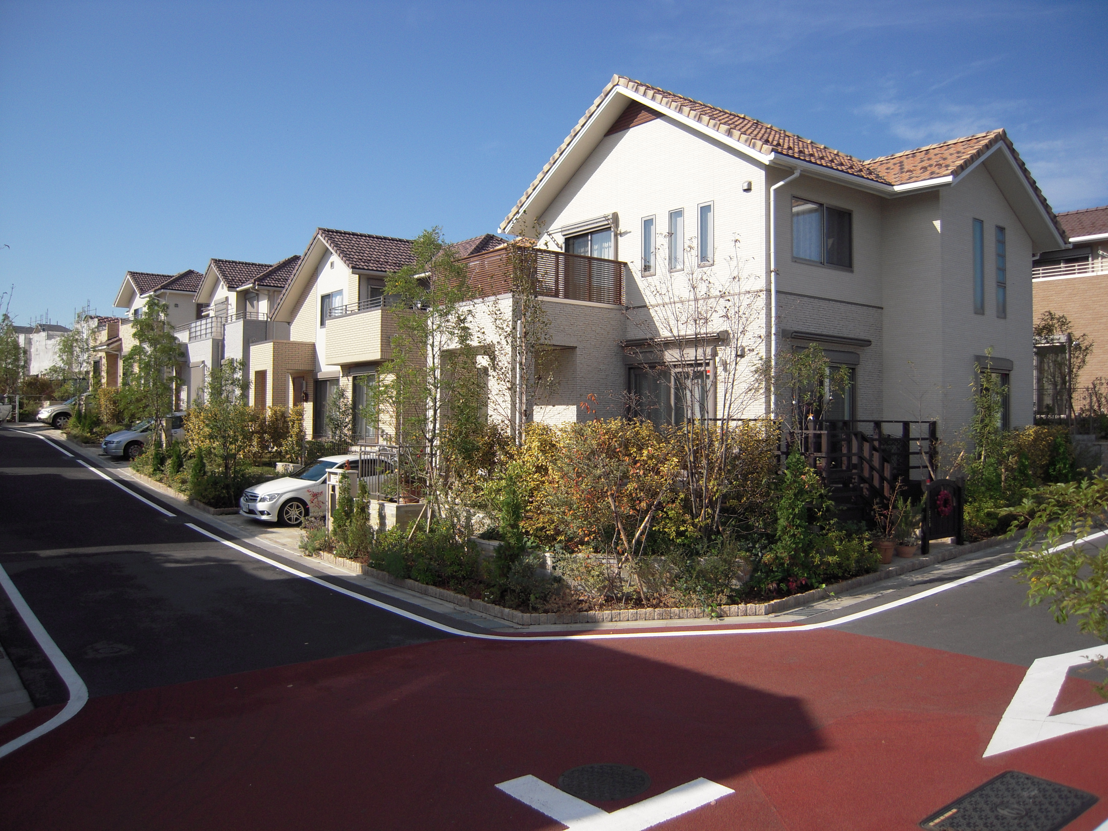 Koyodai, Inagi